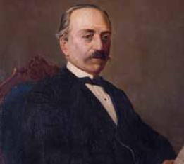 picture of national hero, dominican navy comander Juan Bautista Cambiaso.